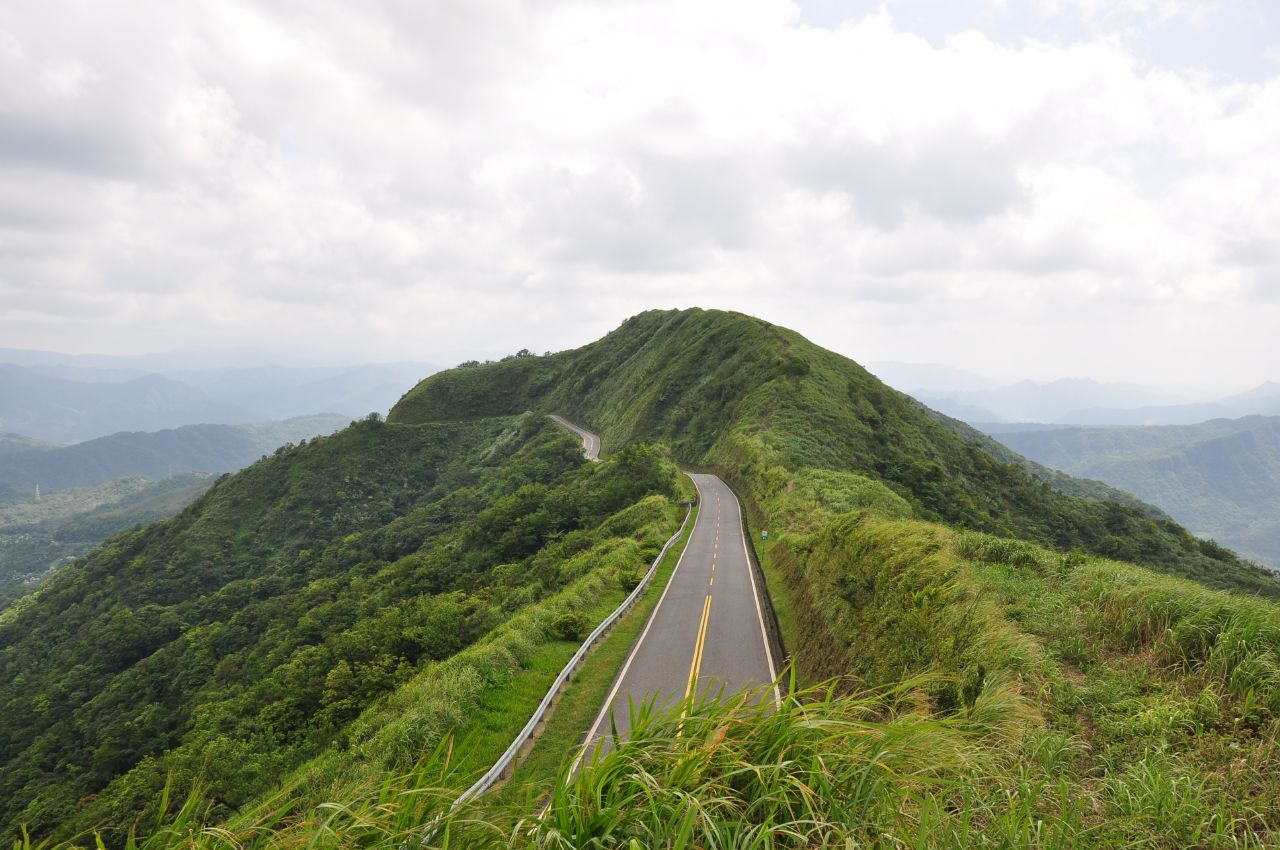 Looking down the road at Buyan Pavilion.中文（中国大陆）: 从不厌亭俯瞰公路。